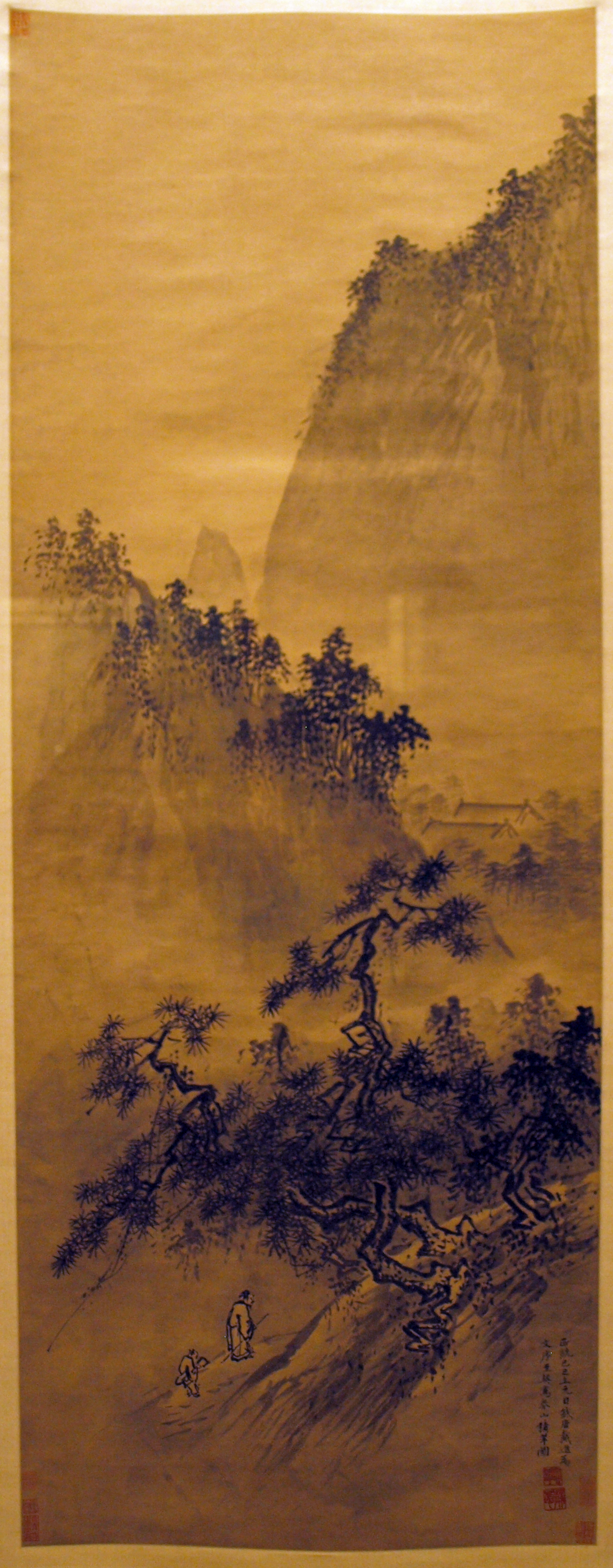 Painting by Dai Jin (1388-1462): "Dense Green on Spring Mountains". Hanging scroll from the Ming dynasty. This scroll was completed in 1449. On display at the Shanghai Museum.